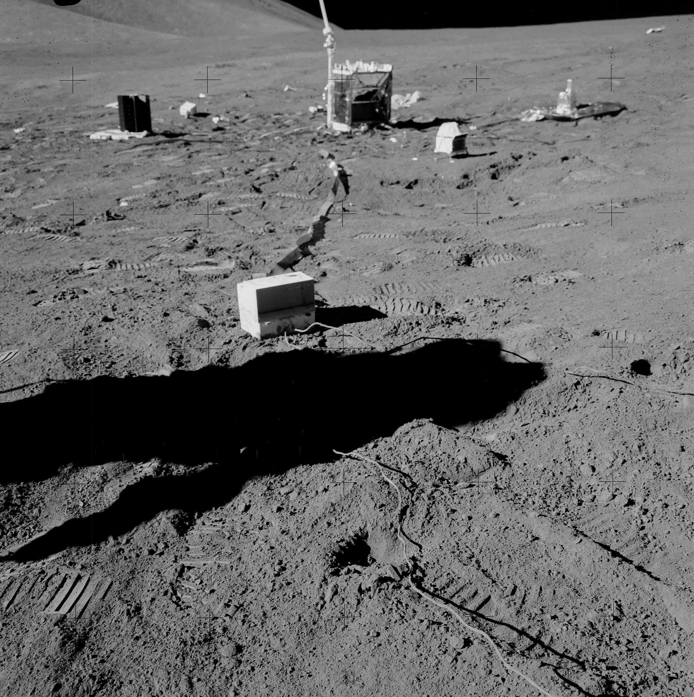 The electronics box for Apollo 15's HFE.